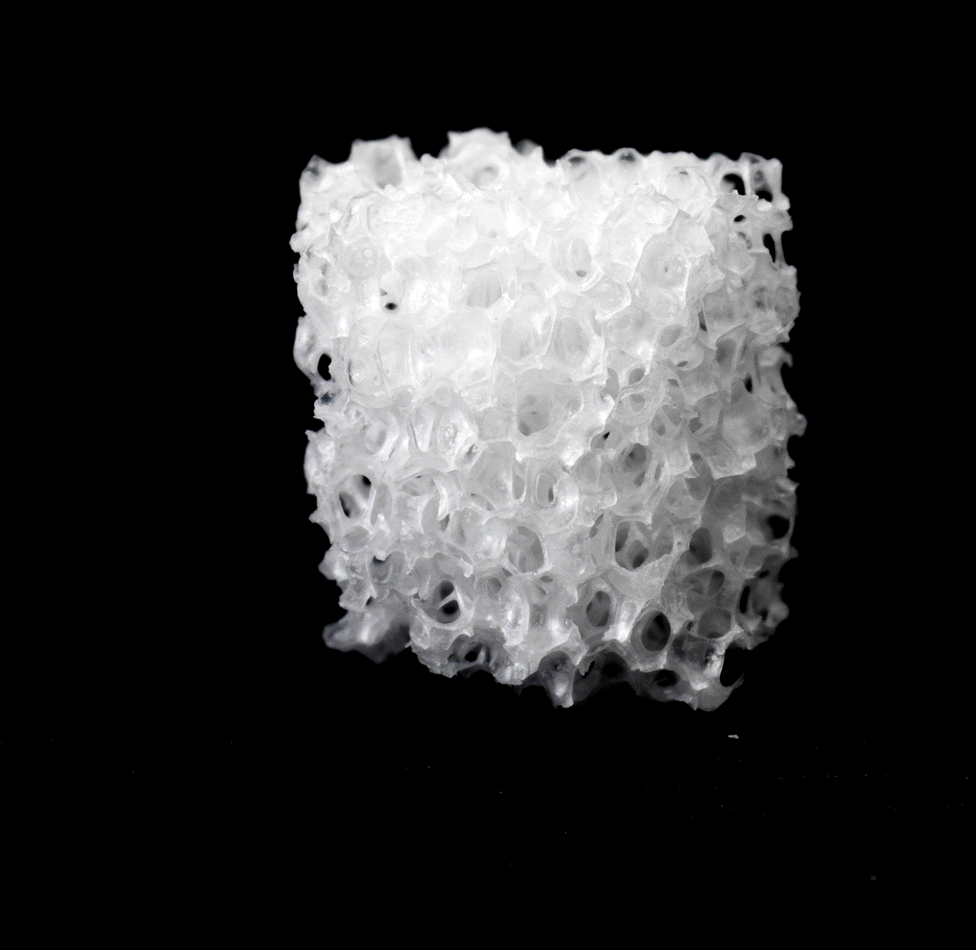 photo of porous ceramic granule, photo shot by Michel Porro